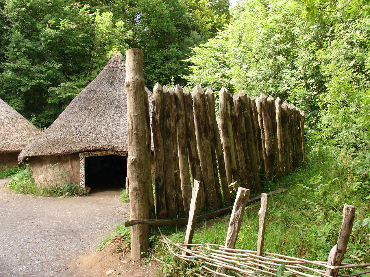 St. Fagans, National Museum Wales (Cardiff, UK): Palisade in Celtic village.